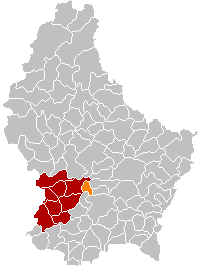 Own edit of Kanton CapellenLocatie.png